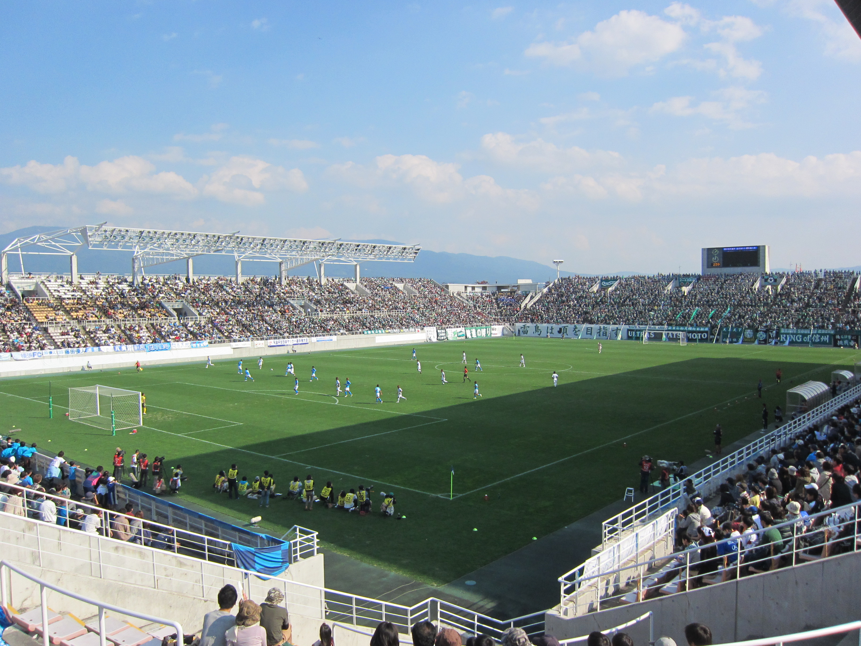 Matsumoto Sky Park Football Stadium